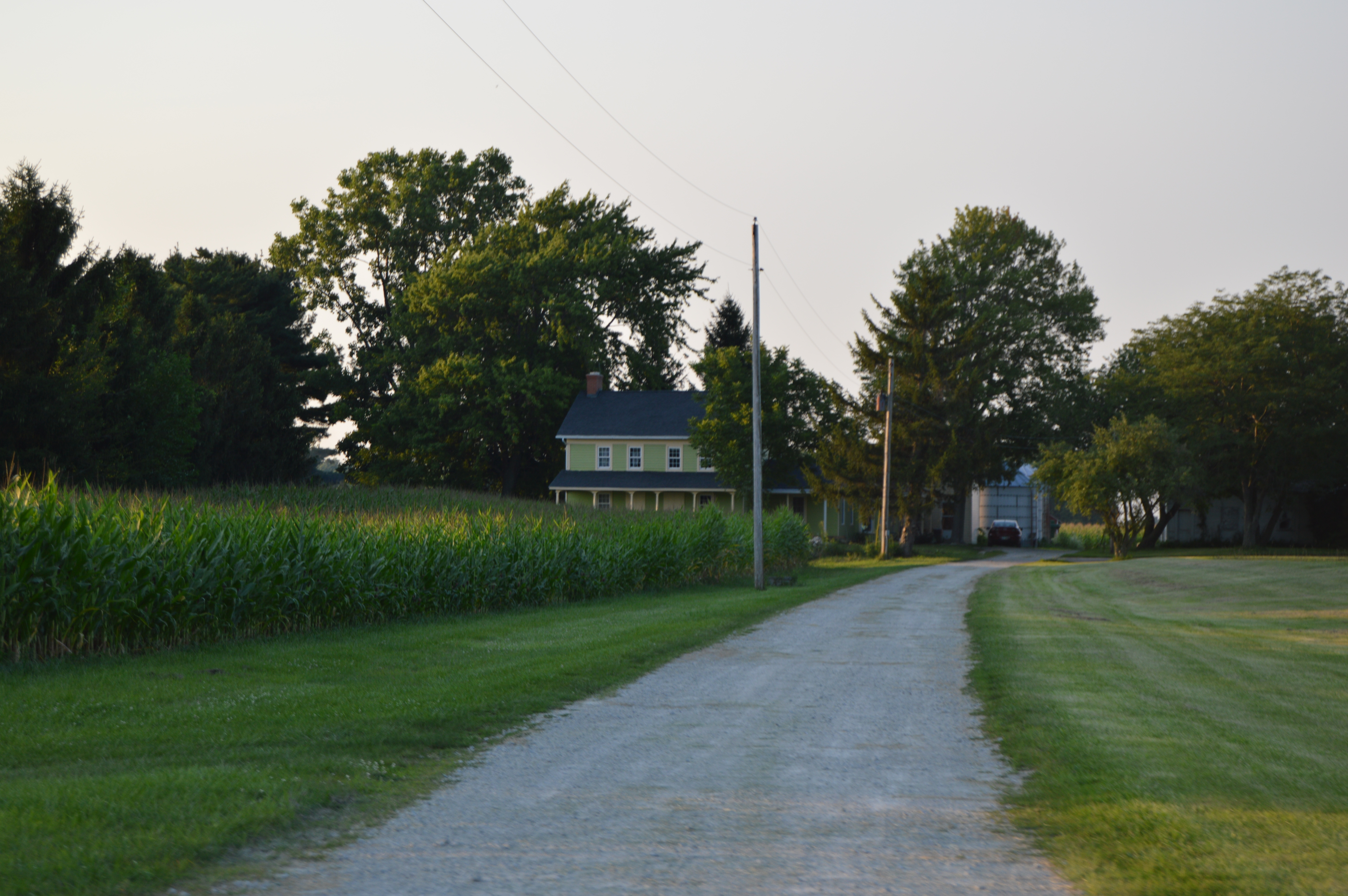 Roadside view of the front and eastern side of the William Graham House, located at 7056 Jerry City Road southwest of Wayne in Portage Township, Wood County, Ohio, United States. Built in 1852, it is listed on the National Register of Historic Places.